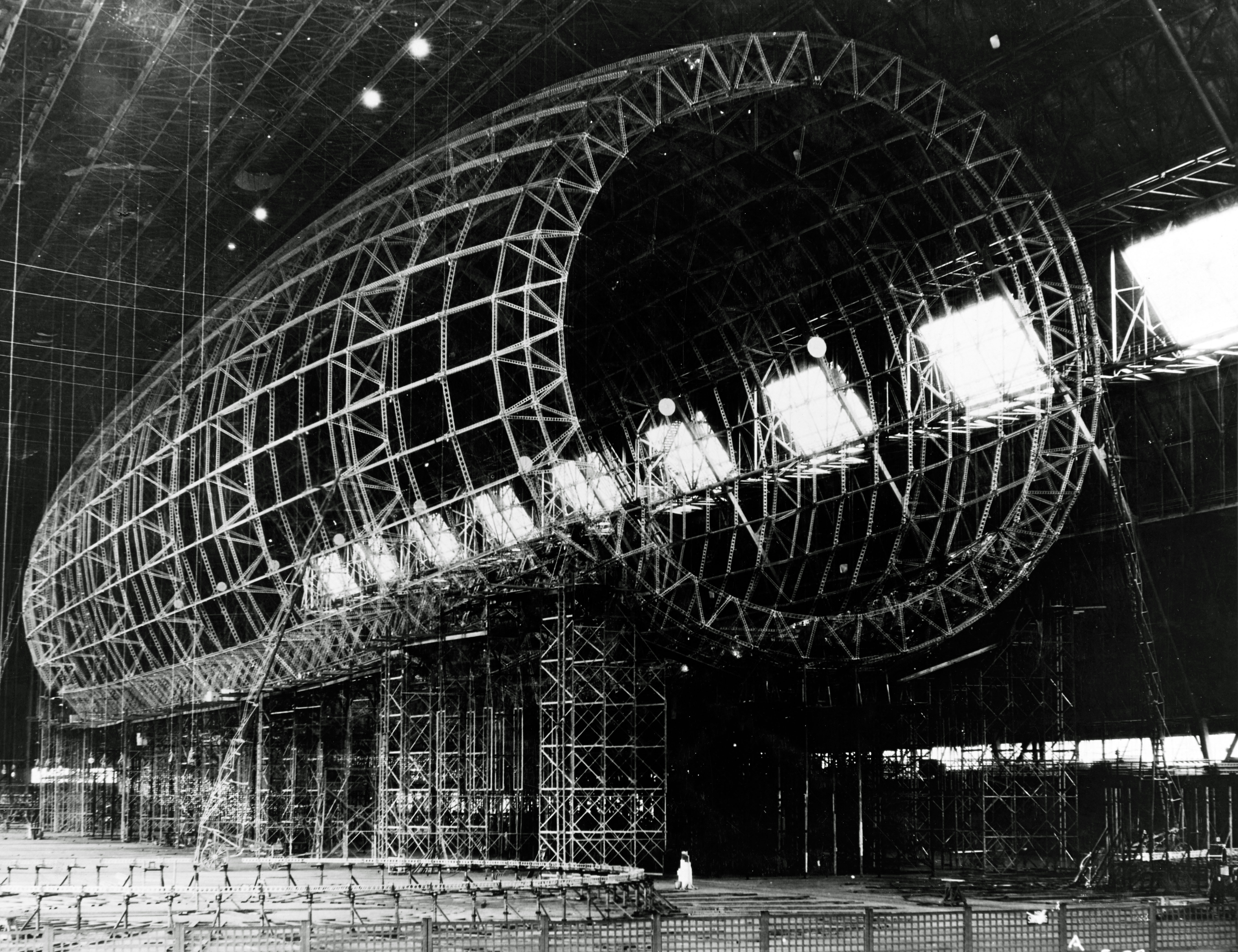 USS Akron (ZRS-4) under construction in the Goodyear-Zeppelin Corporation "air dock" hangar at Akron, Ohio (USA), 5 November 1930. this point, the airship's framework had been completed far enough to hold seven bags of lifting helium.